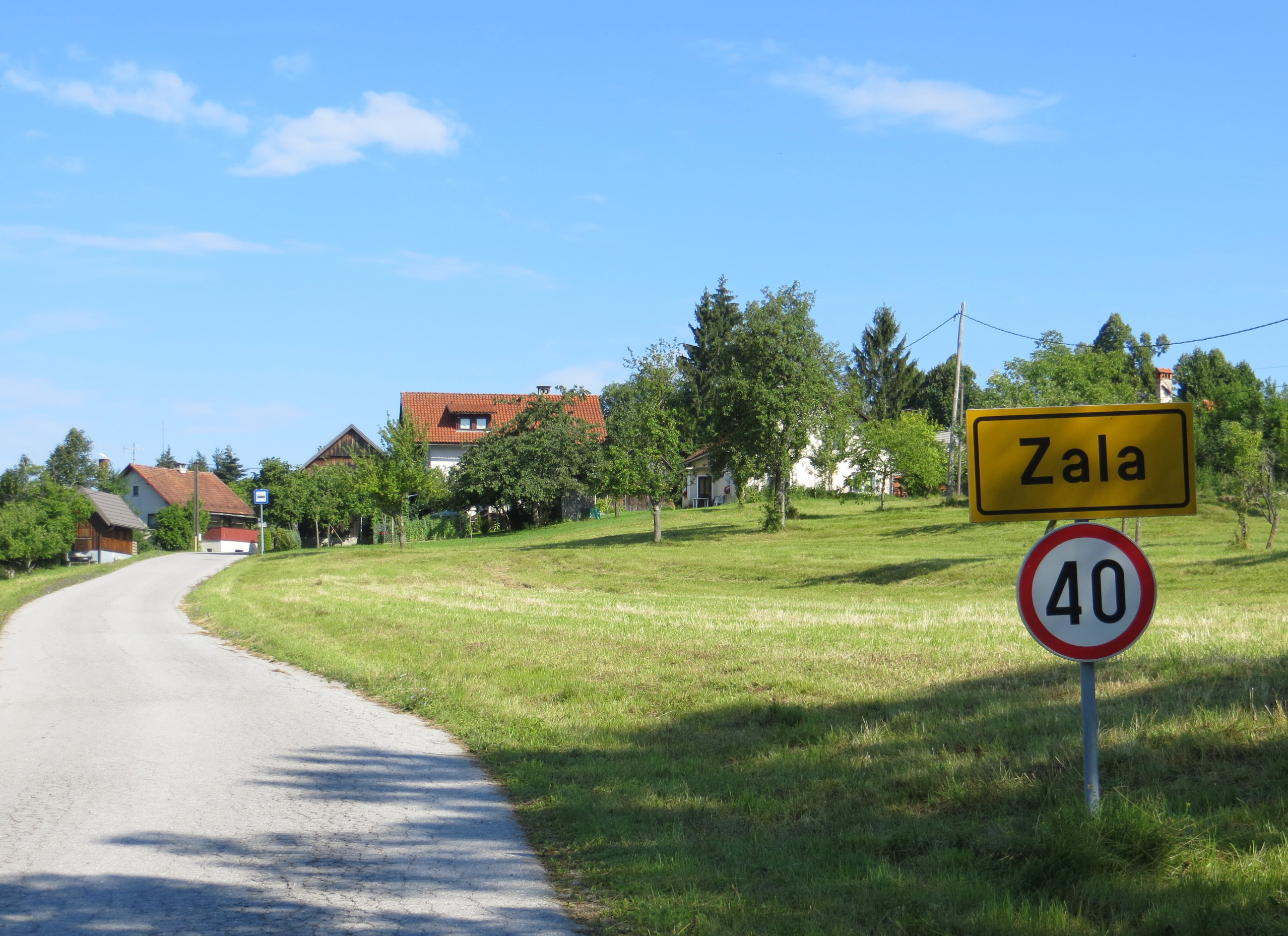 Zala, Municipality of Cerknica, Slovenia